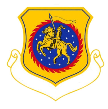 Emblem of the 452d Air Mobility Wing (used by the 452d Operations Group with group name on scroll